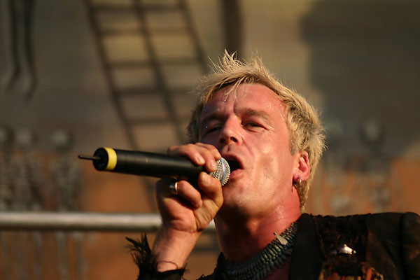 Michael Rhein aka Das letzte Einhorn, singer from German band In Extremo, M'era Luna Festival in 2004